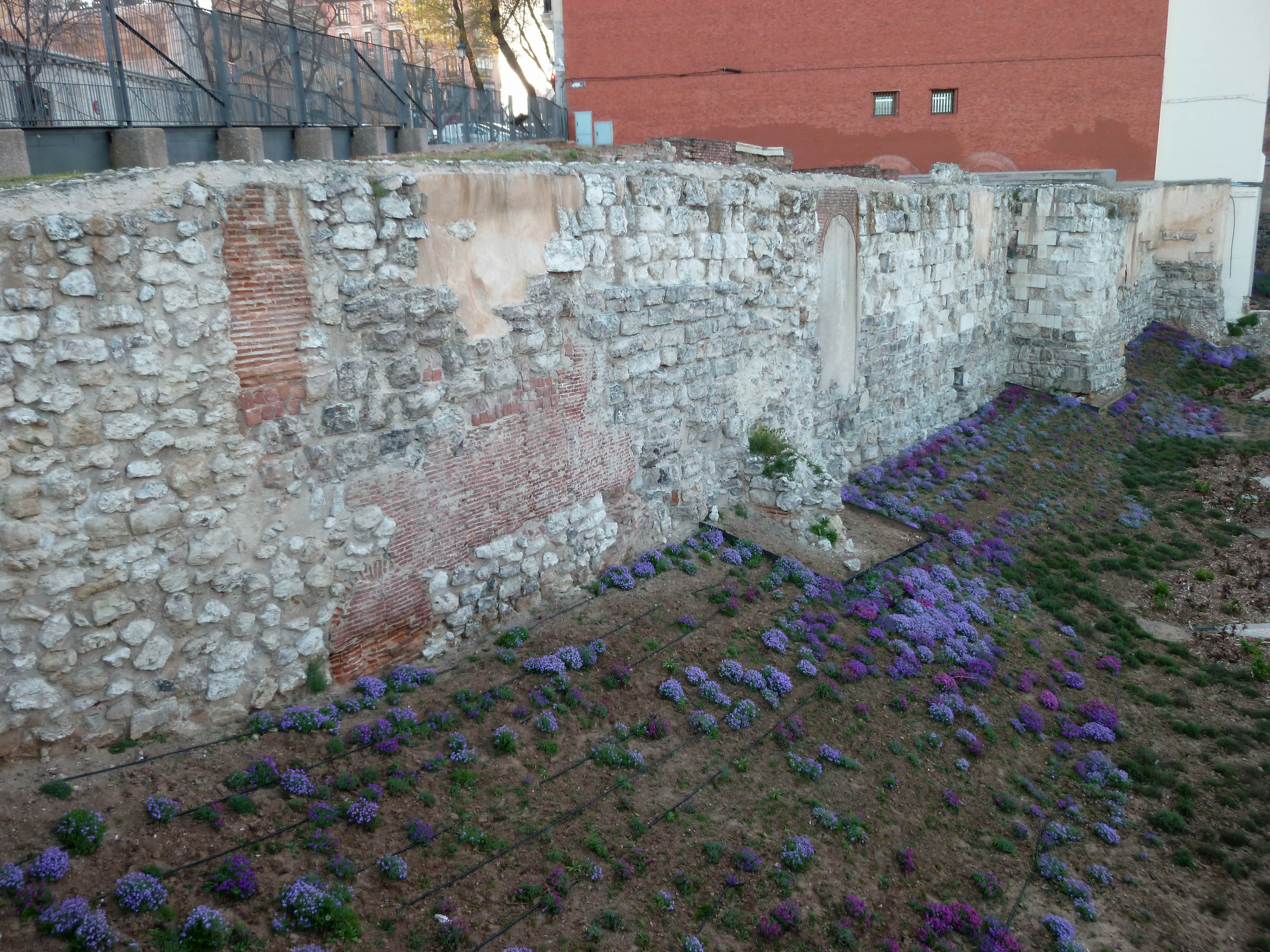 Ruins of the Muslim wall of Madrid (Spain).